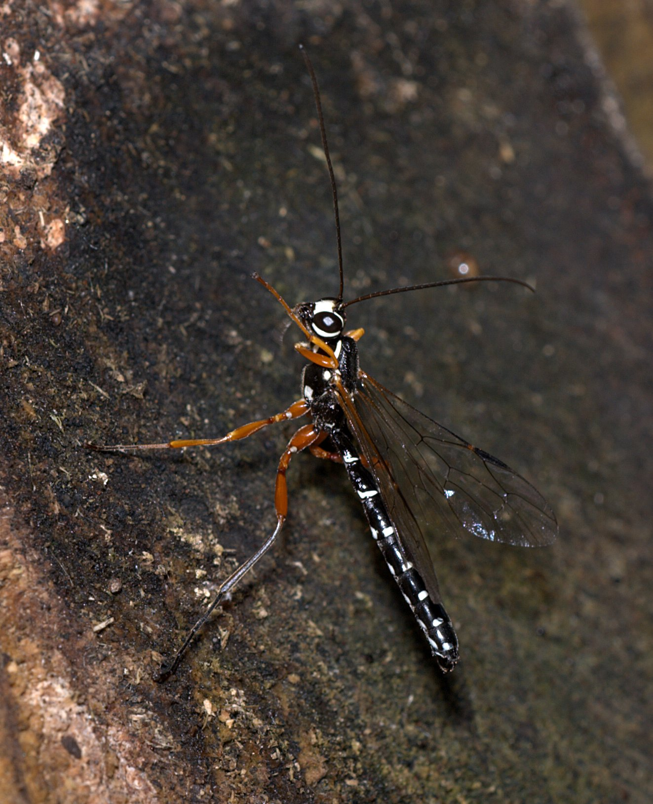 male Rhyssa persuasoria from Königsforst near Cologne, Germany. Was flying along logs.